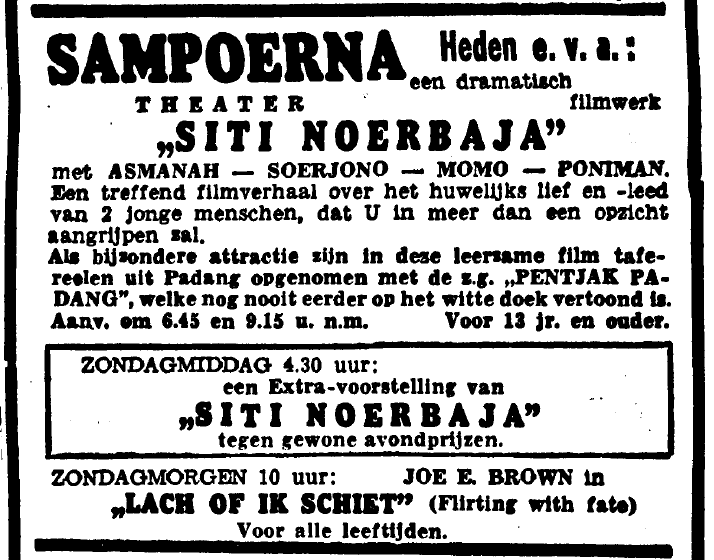 Advertisement for the 1941 film Siti Noerbaja